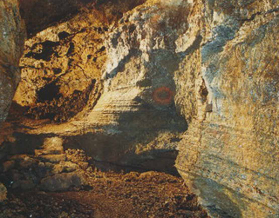 A view of the Gruta do Natal lava tube, situated in the civil parish of Biscoitos, municipality of Praia da Vitória (Azores), Portugal